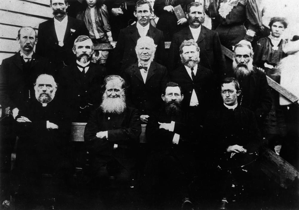 Members of the Heck family at a Bethlehem Lutheran Church gathering, Pimpama Island. Centre row: W. H. Heck, Carl Huth, G. H. (Grandpa) Heck, Otto Kleinschmidt and Rudolph Hinze. Back row: Alf Baumann, Ted Spann and Burrow. Front row: Missionary Gosling, Reverend Kohnke and Reverend Thiele. (Description supplied with photograph.).